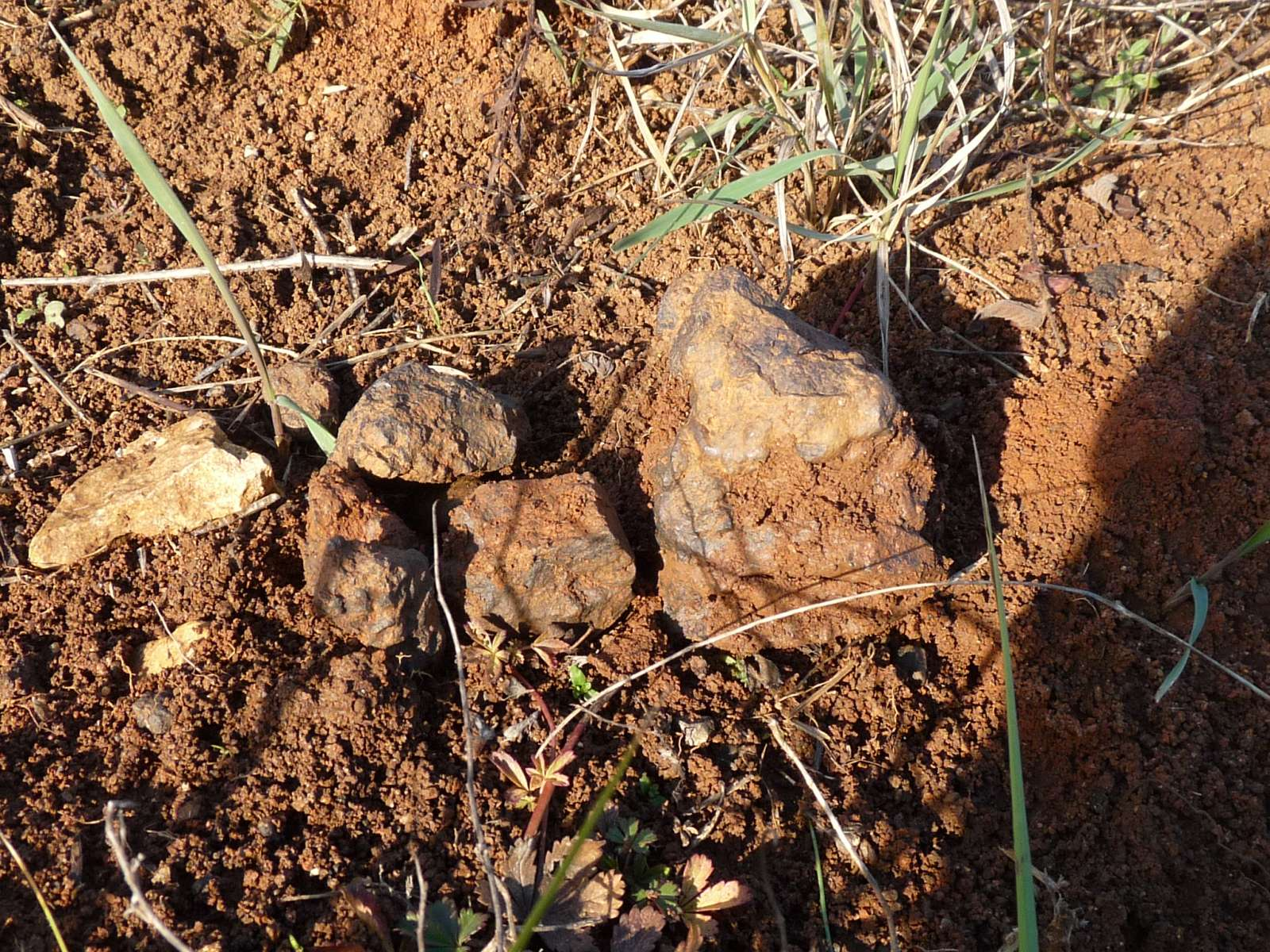 iron core in a field (on the left, limestone)